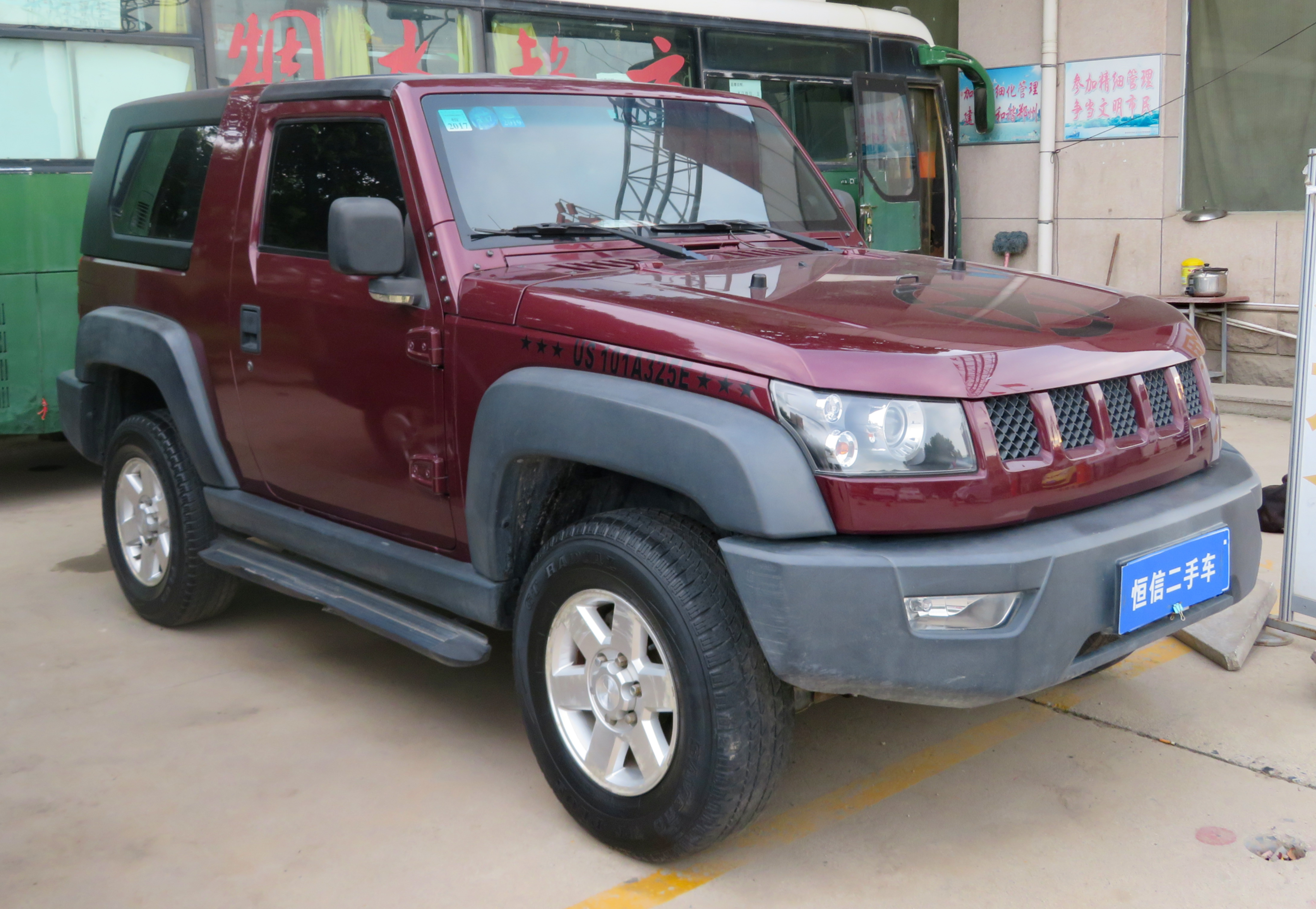 A Beijing (BAIC) BJ40 2-door photographed in Zhengzhou, Henan province, China